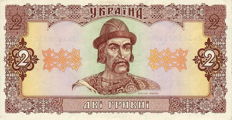 2 Hryvna banknote (Ukraine), 1992, front